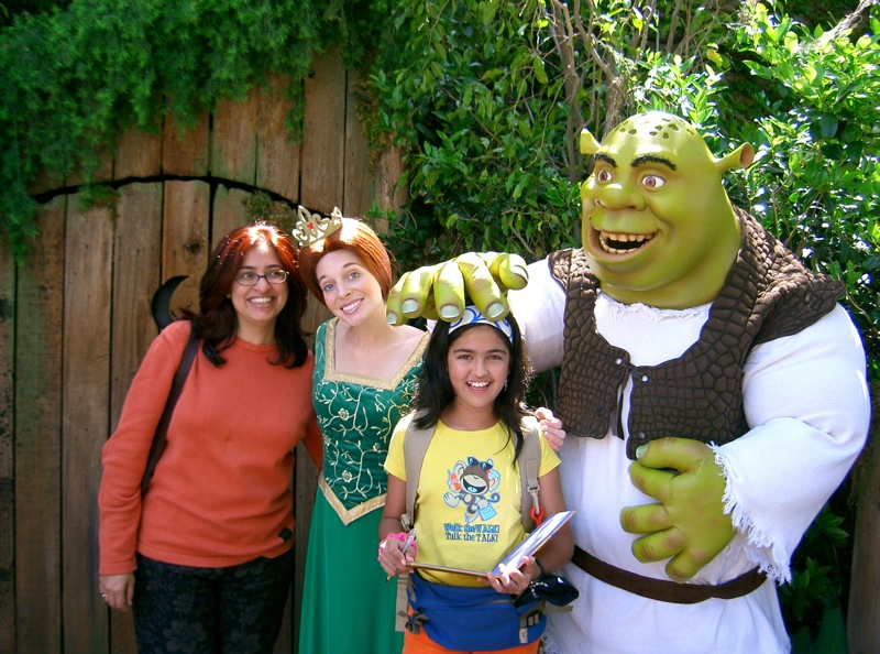 Shrek and Fiona like their subjects